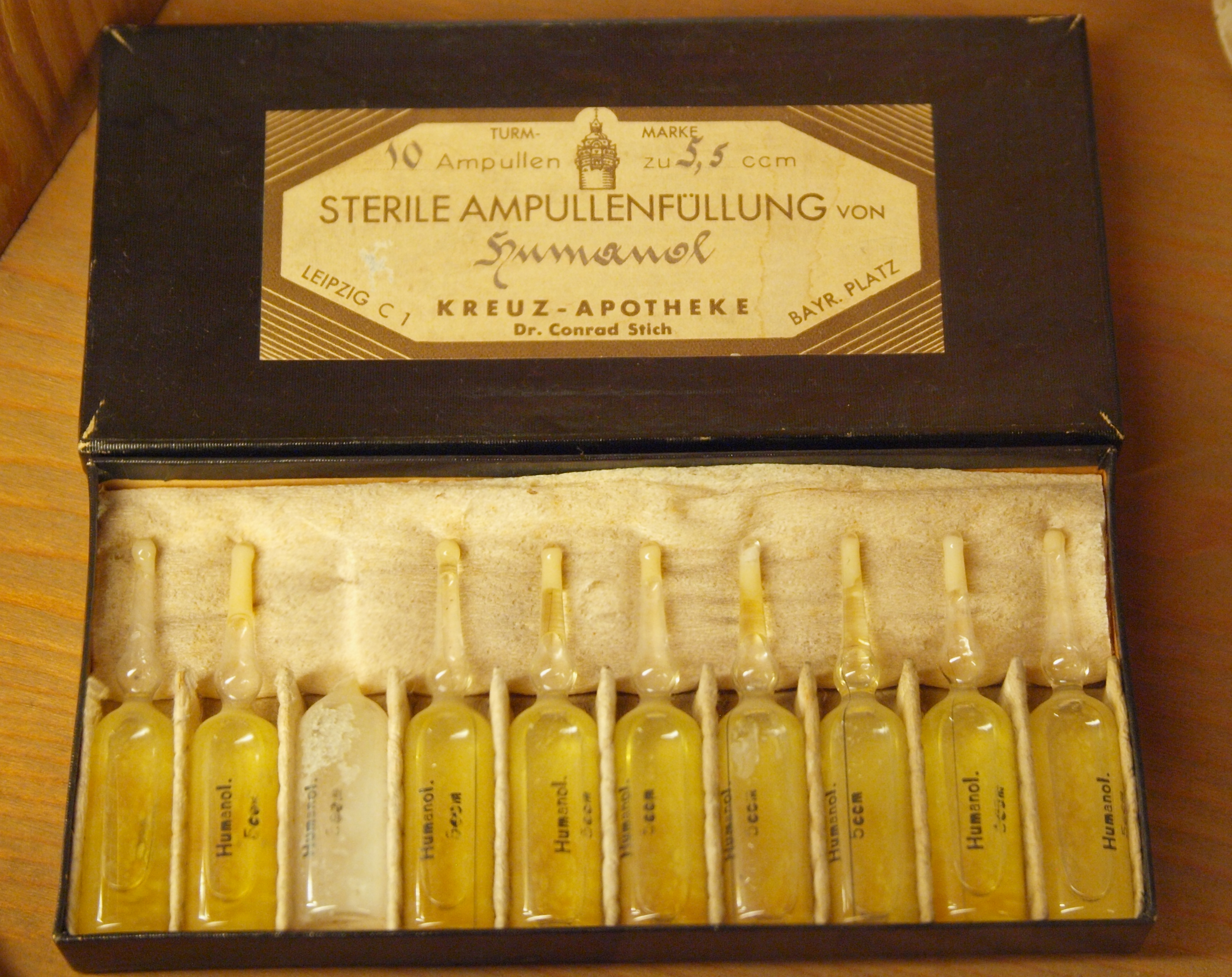 10 x 5,5 ml ampules Humanol, a sterile preparation of human adipose fat. Prepared by Kreuz-Apotheke, Leipzig, Turm-Marke. Approximately early 20th century. At Deutsches Apothekenmuseum Heidelberg, Germany.